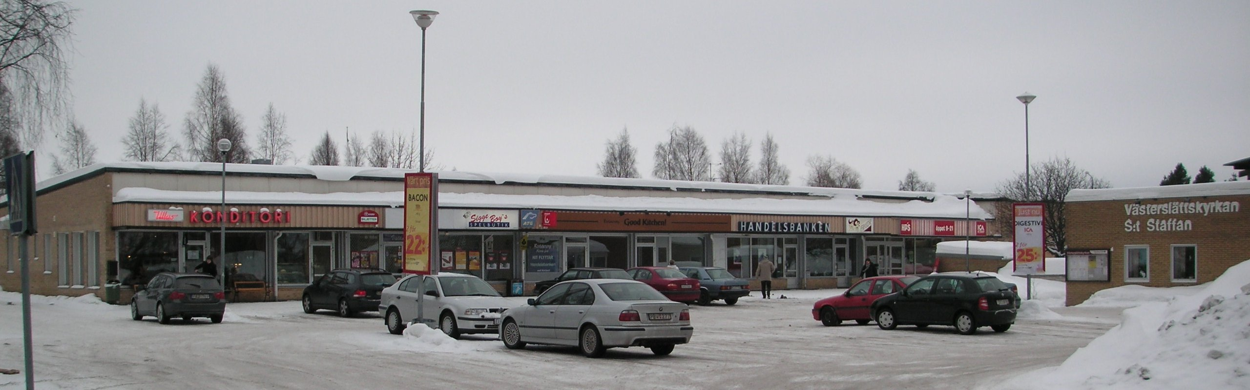 Västerslätt Center, Umeå.